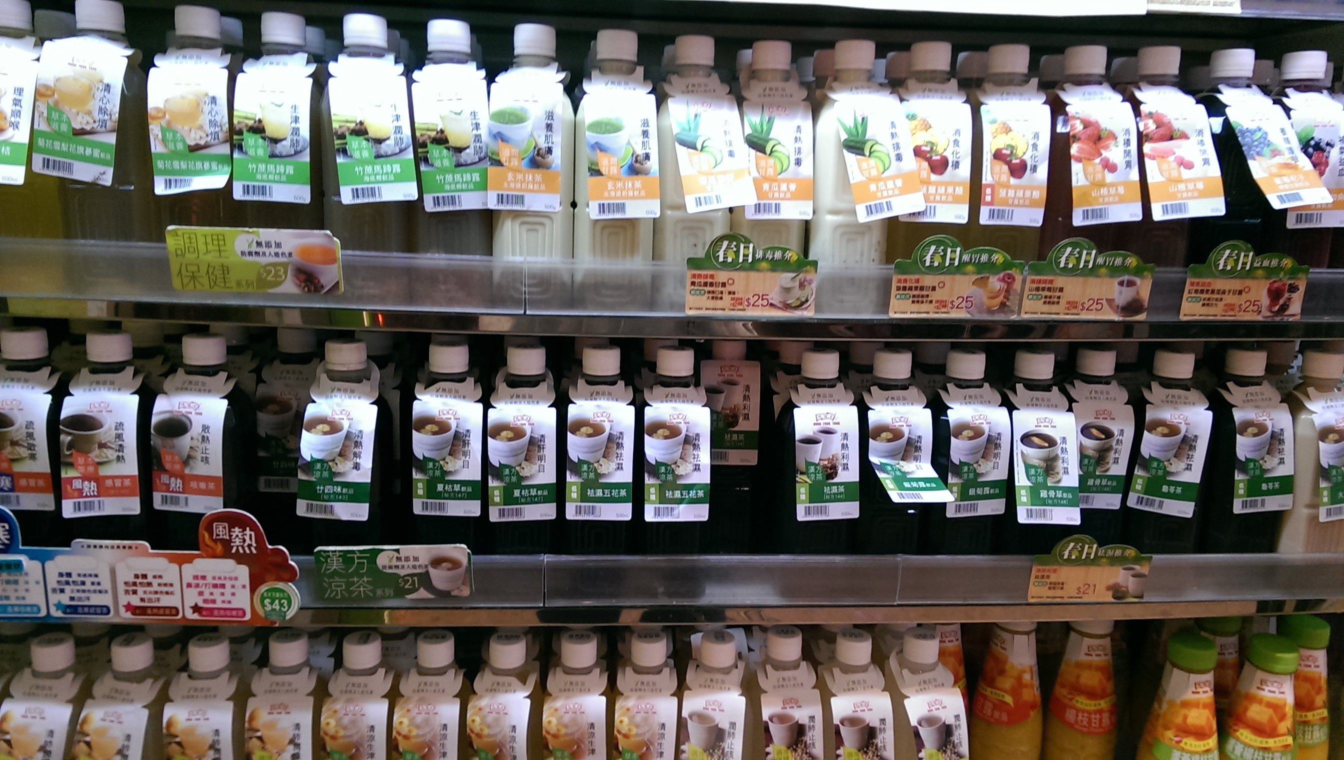 Herbal Tea of various kinds